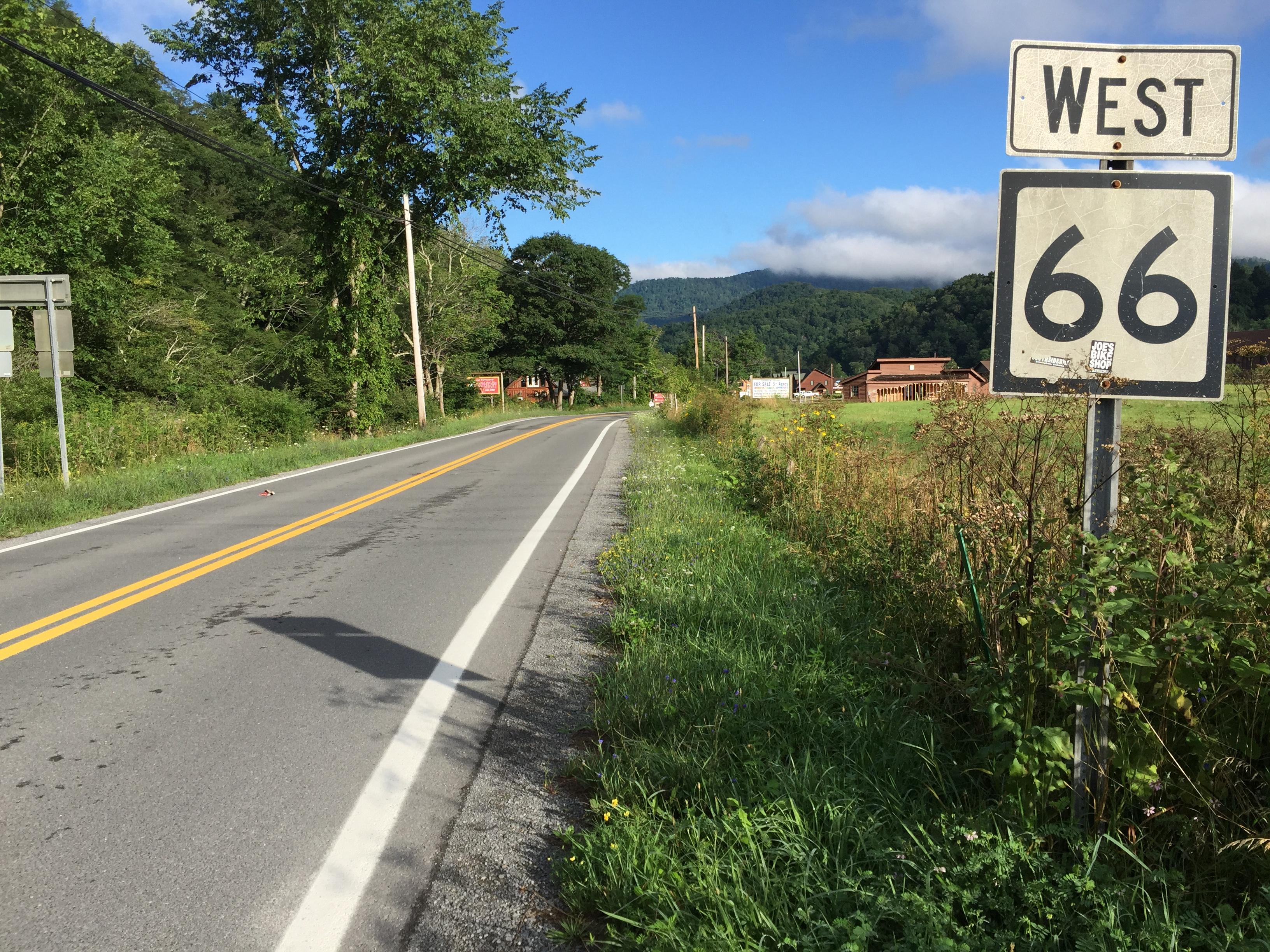 View west along West Virginia State Route 66 (Cass Road) at Snowshoe Drive (Pendleton County Route 9/3) in Linwood, Pocahontas County, West Virginia